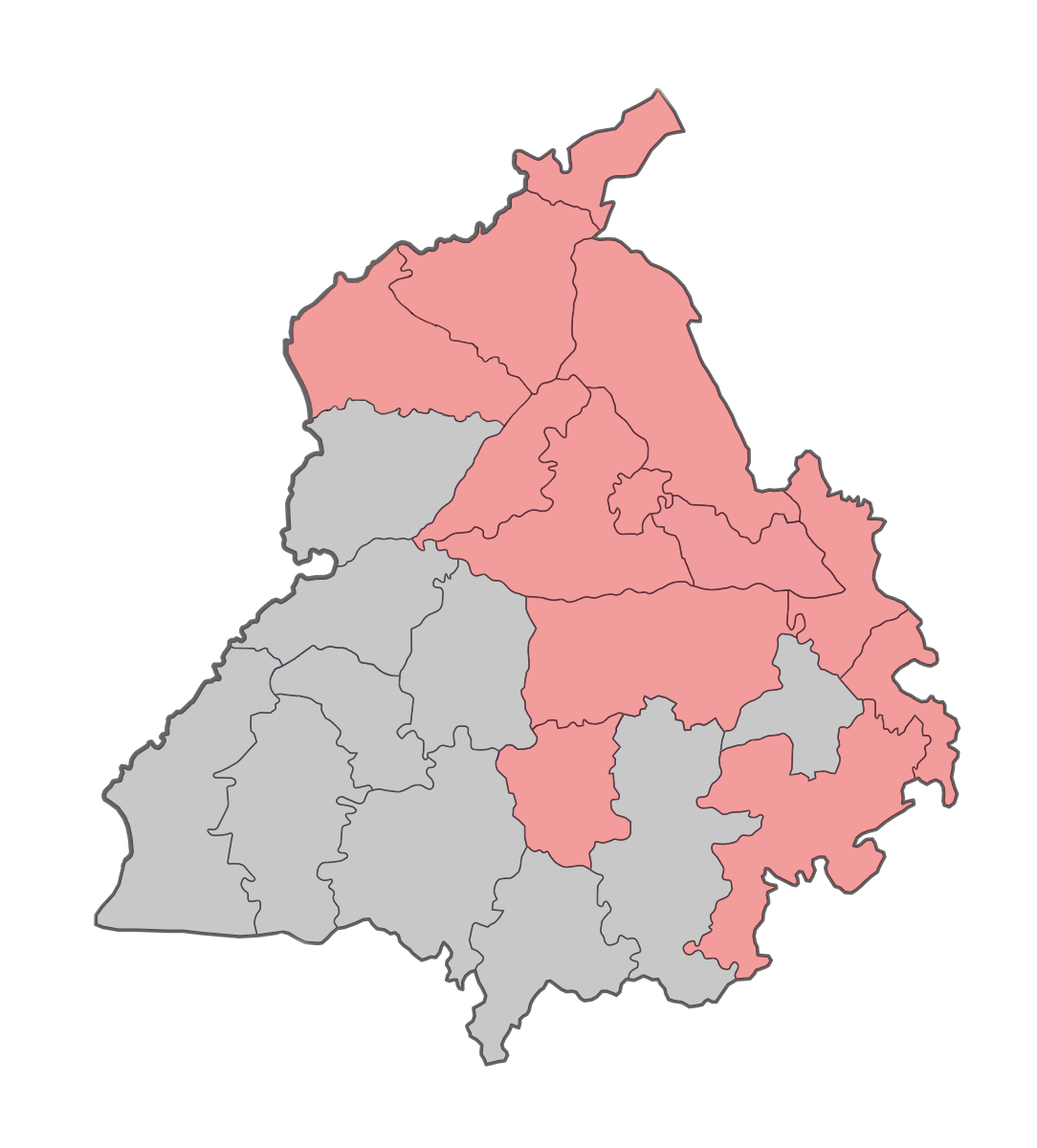 COVID-19 Death Cases in Punjab, India as of 21 March 2020